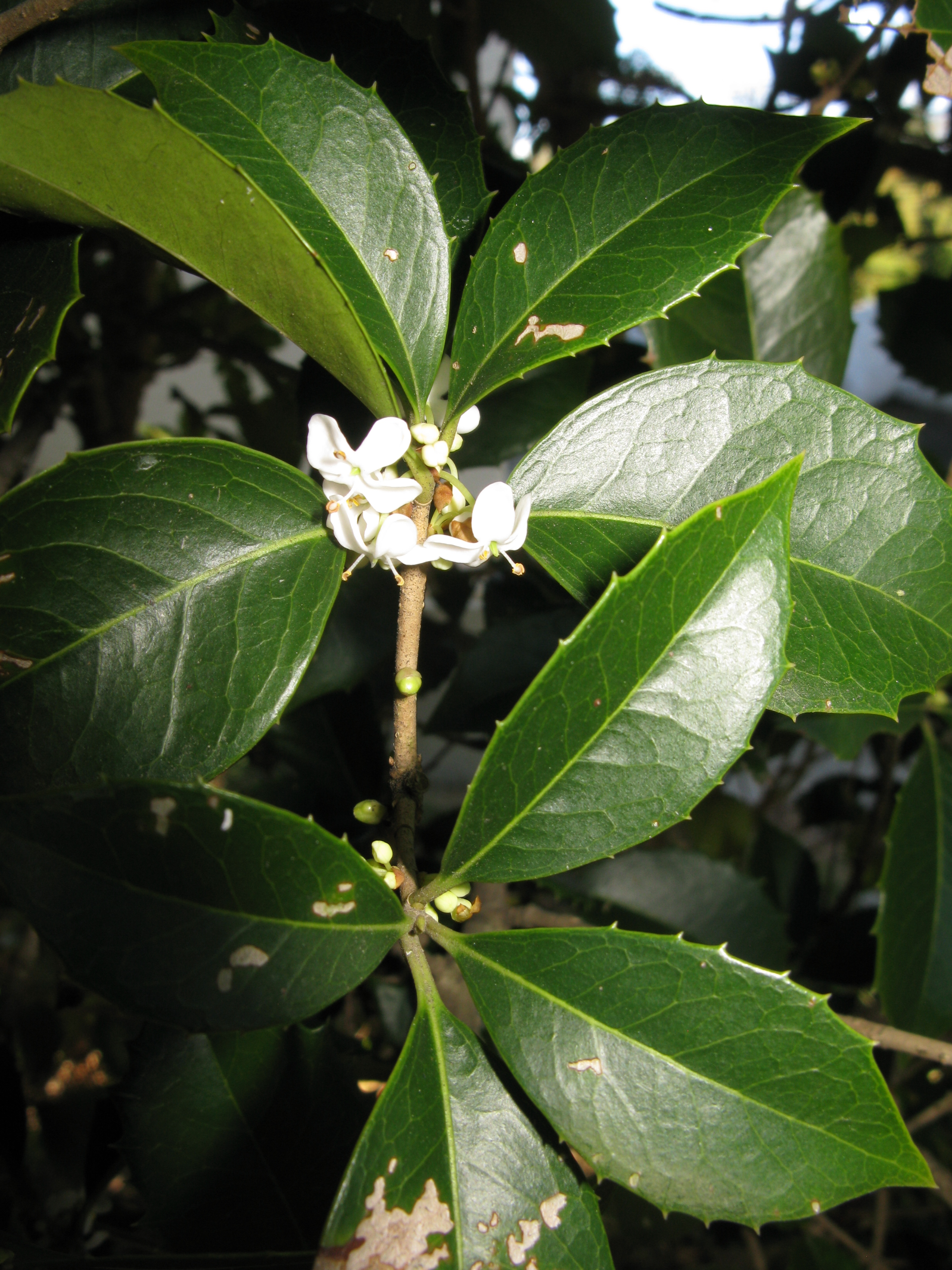 Osmanthus ×fortunei, Miyagi pref., Japan